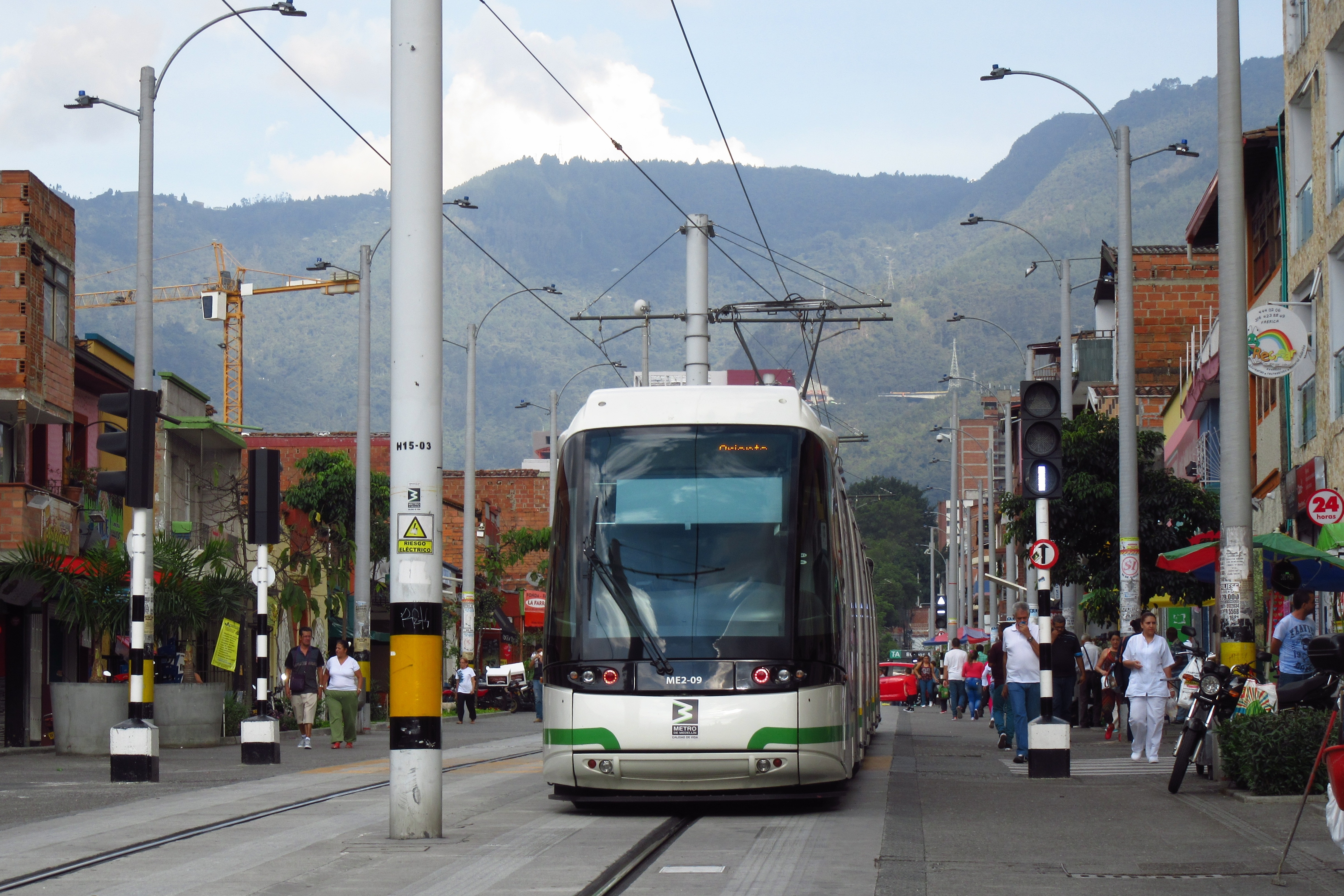 Medellín